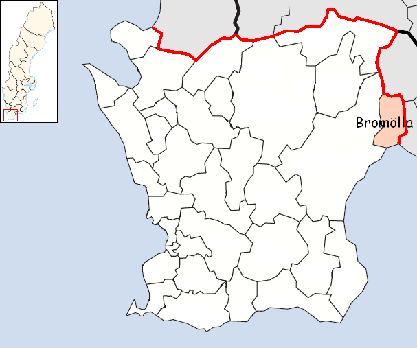 Bromölla Municipality in Scania, Sweden Designed by me. Mere outlines are a PD source from